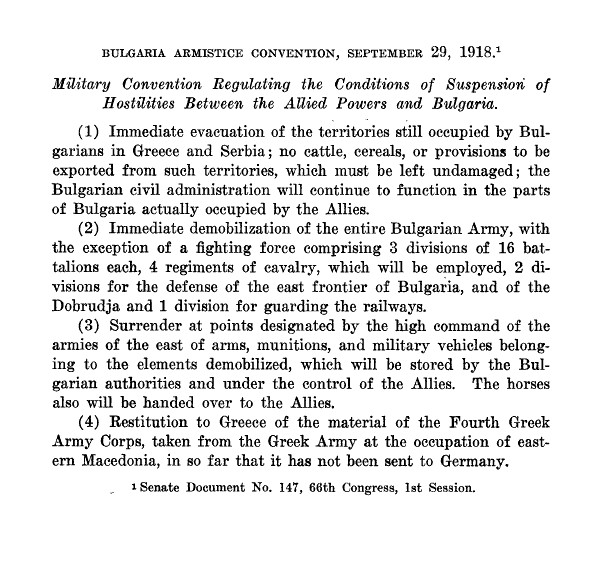 Armistice with Bulgaria, document that called for Bulgaria's exit from World War 1